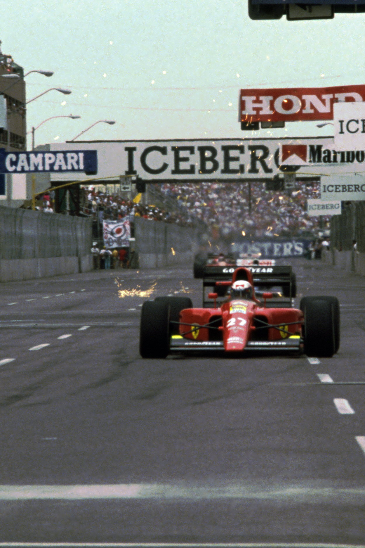 Alain Prost Scuderia Ferrari (competed in 1991) on the first lap of the 1991 United States Grand Prix in Phoenix